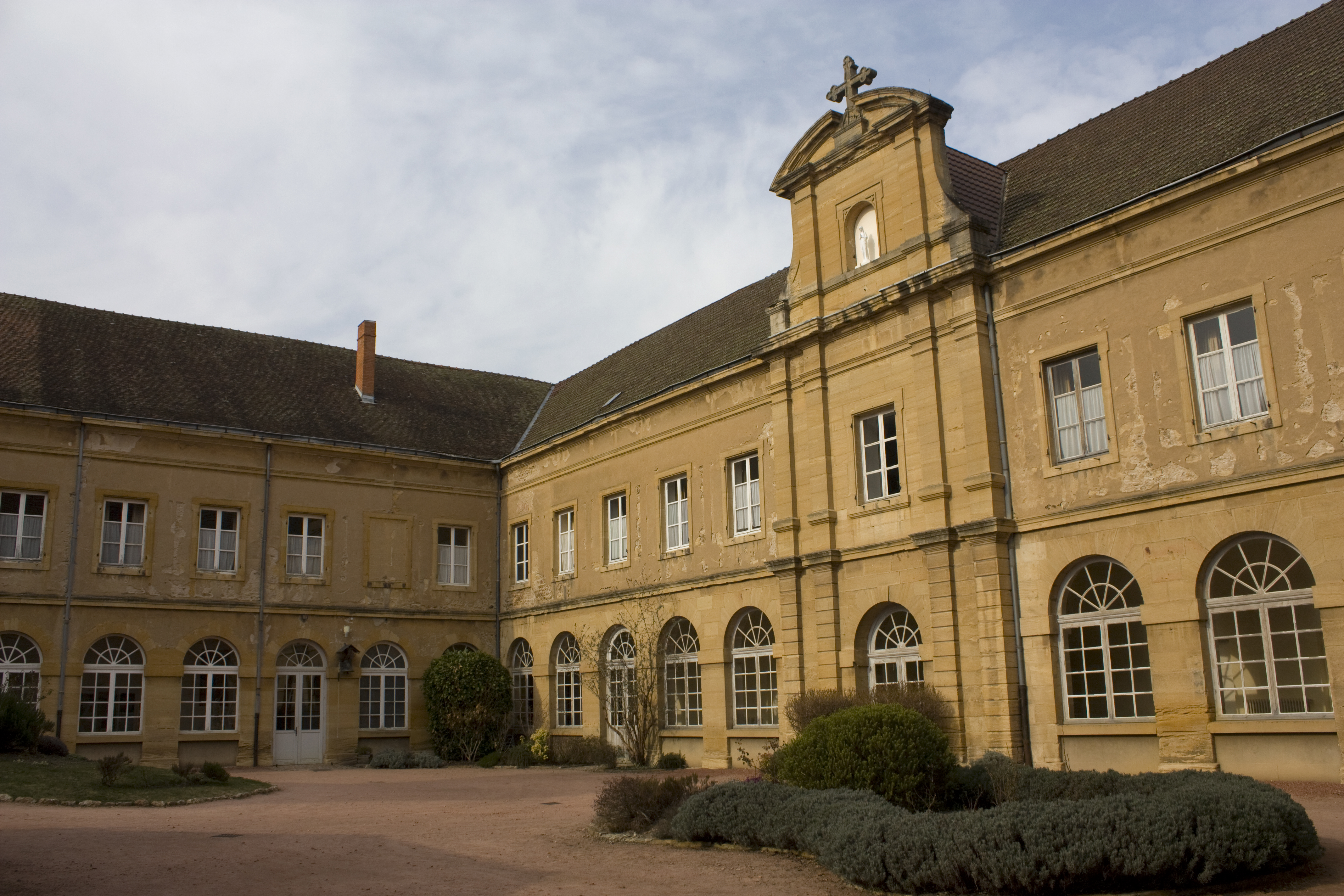 Yard of the Priory of san Hugh (18th century) ...